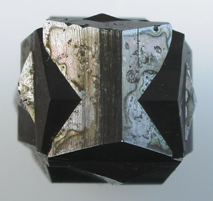 Pyrite (Iron cross) (Size: 7 mm) Locality: Lemgo, Eastern Westphalia, North Rhine-Westphalia, Germany Original description: Pyrite, penetration twin, Lemgo, Westphalia, Germany. Collected by M. Jatskowki, 1996. K. Nash specimen & image.